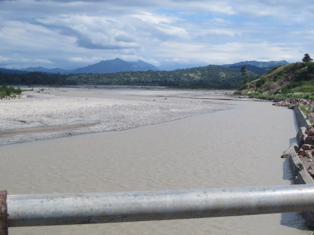 Laleia River from bridge crossing